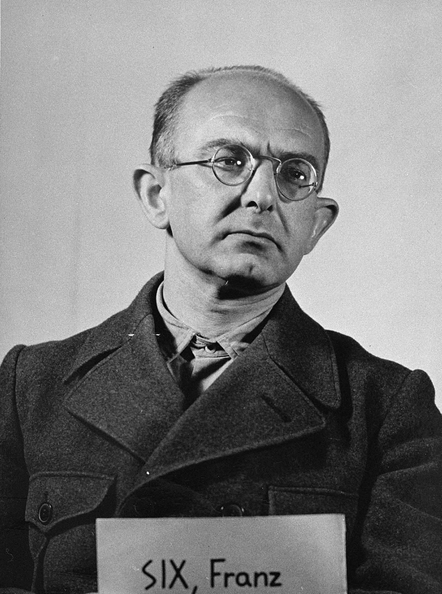 Franz Six at Nuremberg, 1948.